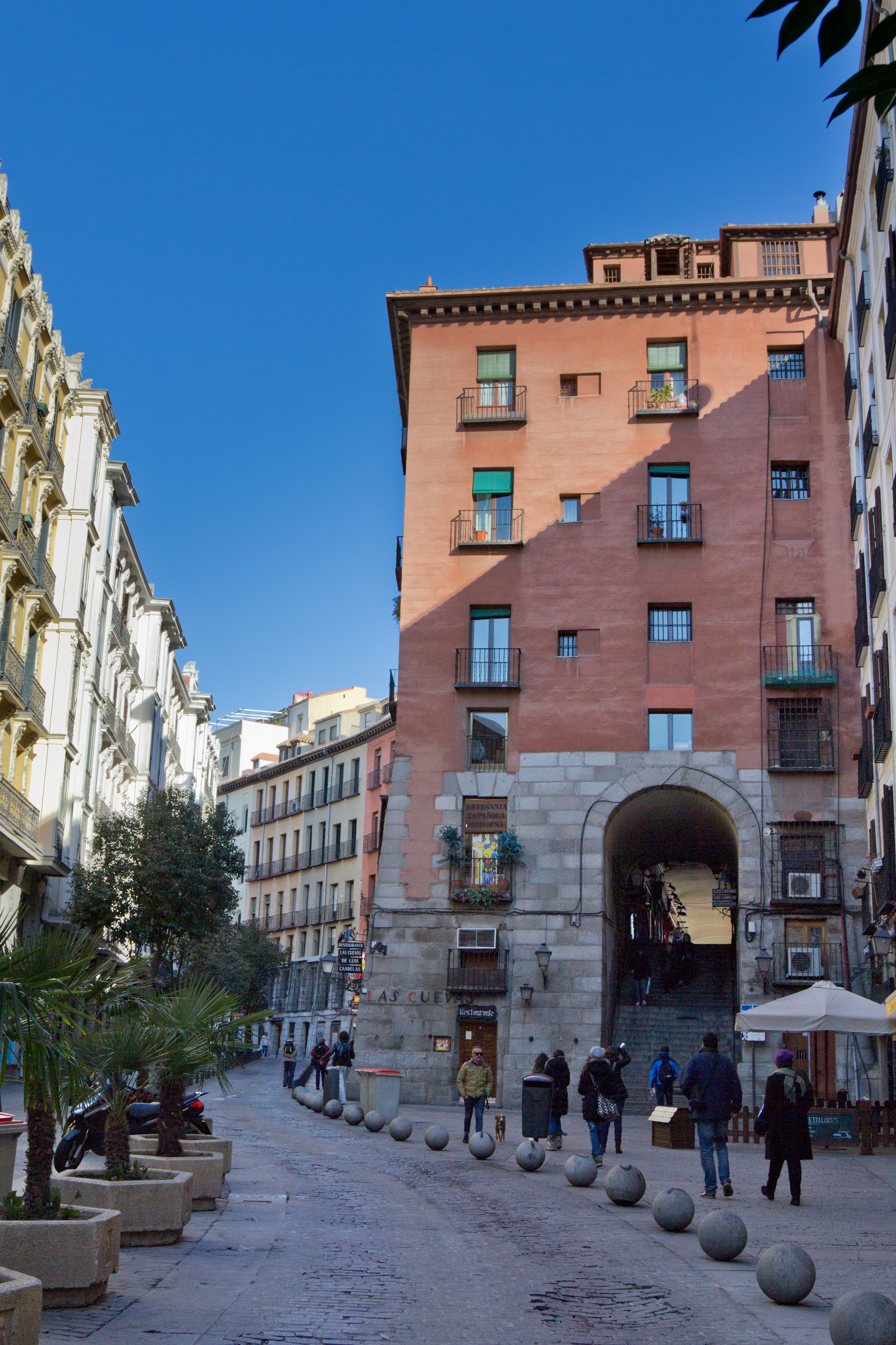 Cuchilleros Arch from Cava e San Miguel Street, Madrid, Spain.